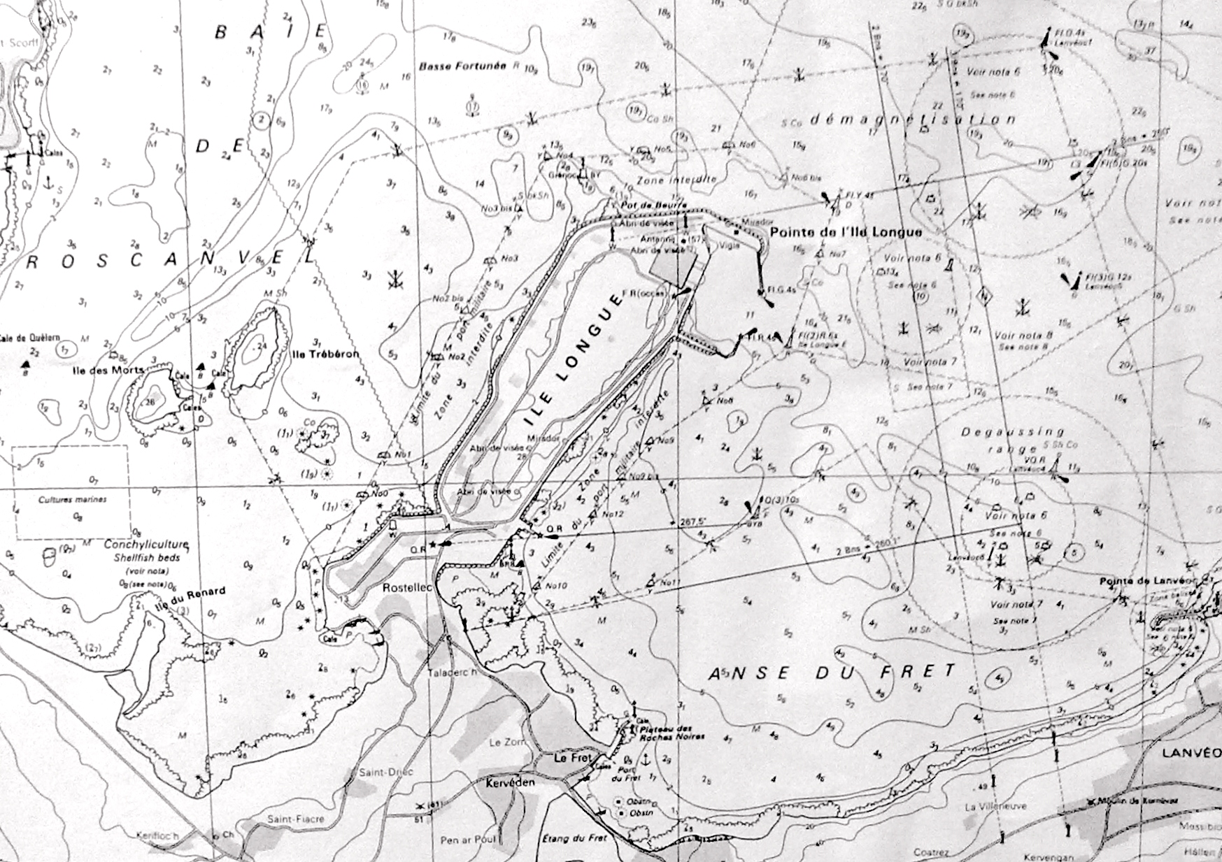 Old map of Ile Longe - base of nuclear submarine